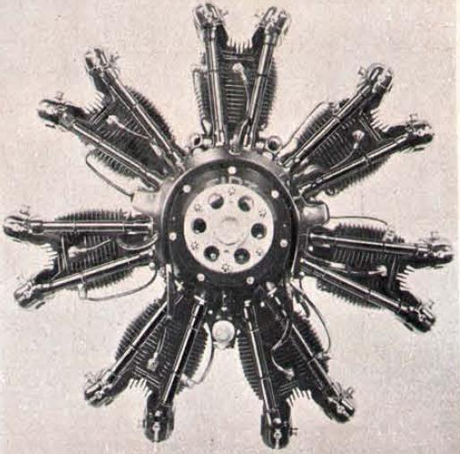 FIAT A.54 150 hp aircraft engine